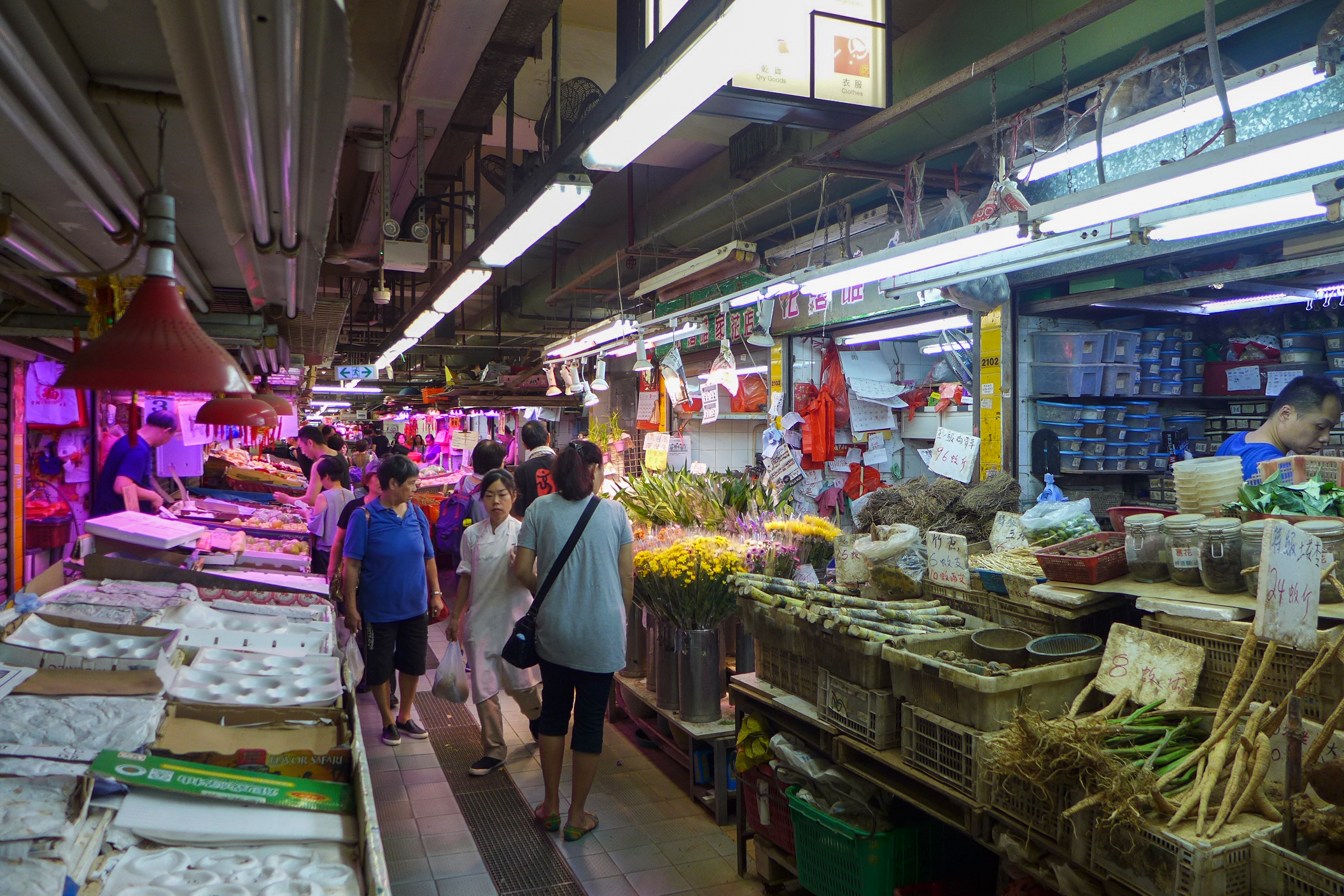 Yeung Uk Road Municipal Services Building